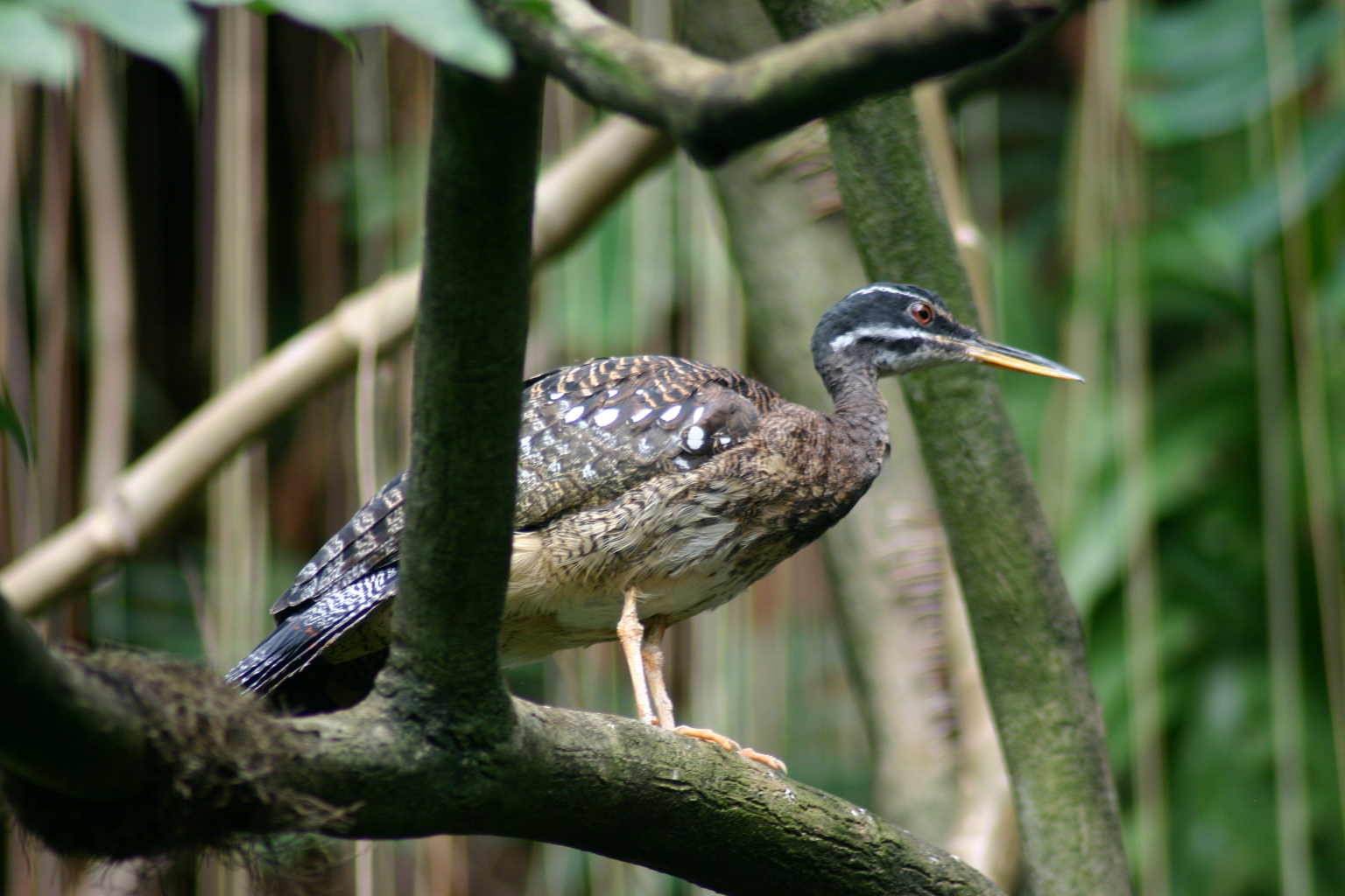 Sunbittern (Eurypyga helias)